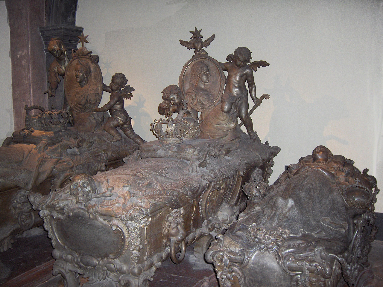 Left to right: Tombs of Maria Josepha of Bavaria (1739-1767), Isabella of Parma (1741-1763) and her daughter Maria Theresia of Austria (1762-1770)